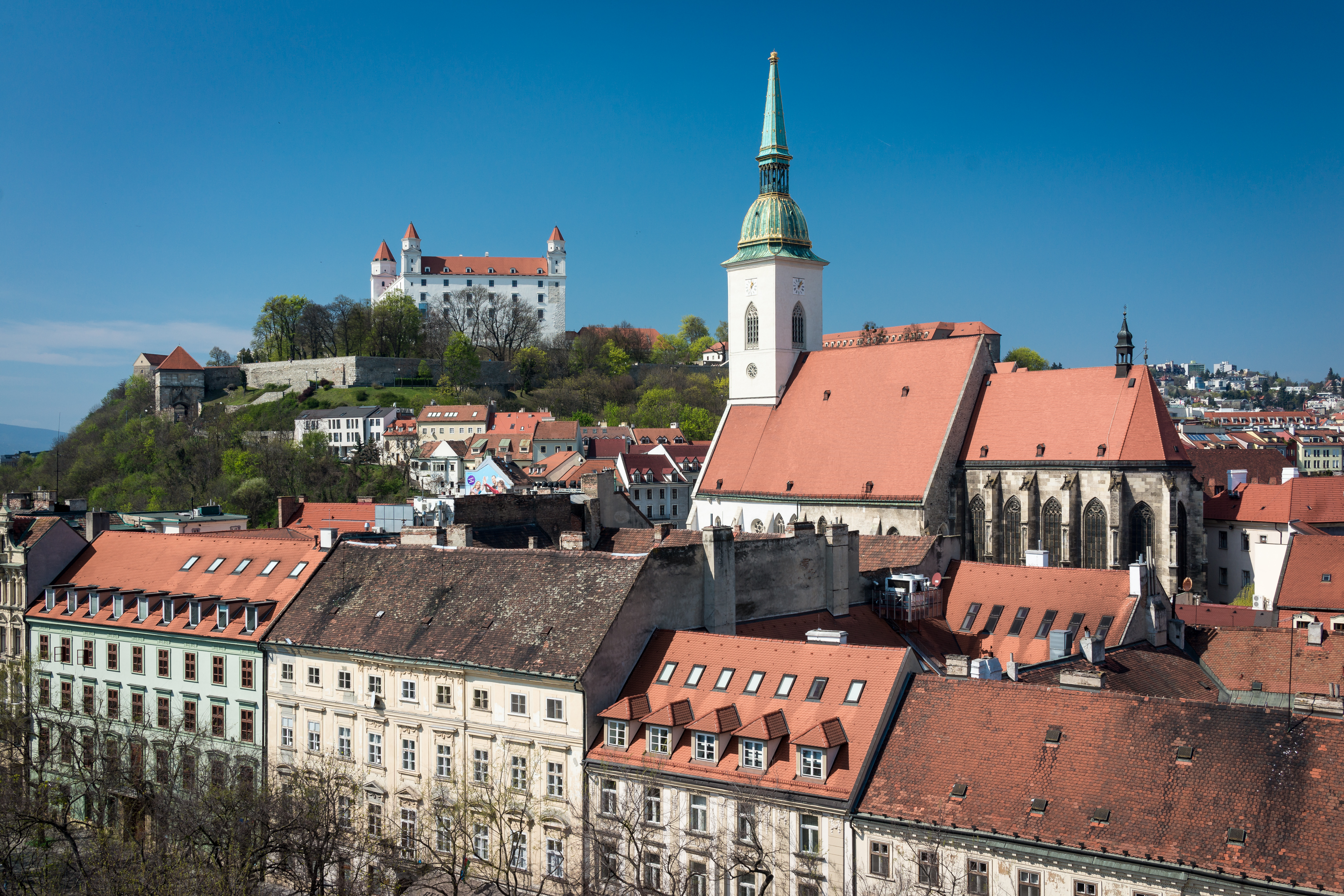 St. Martin's Cathedral & Bratislava Castle